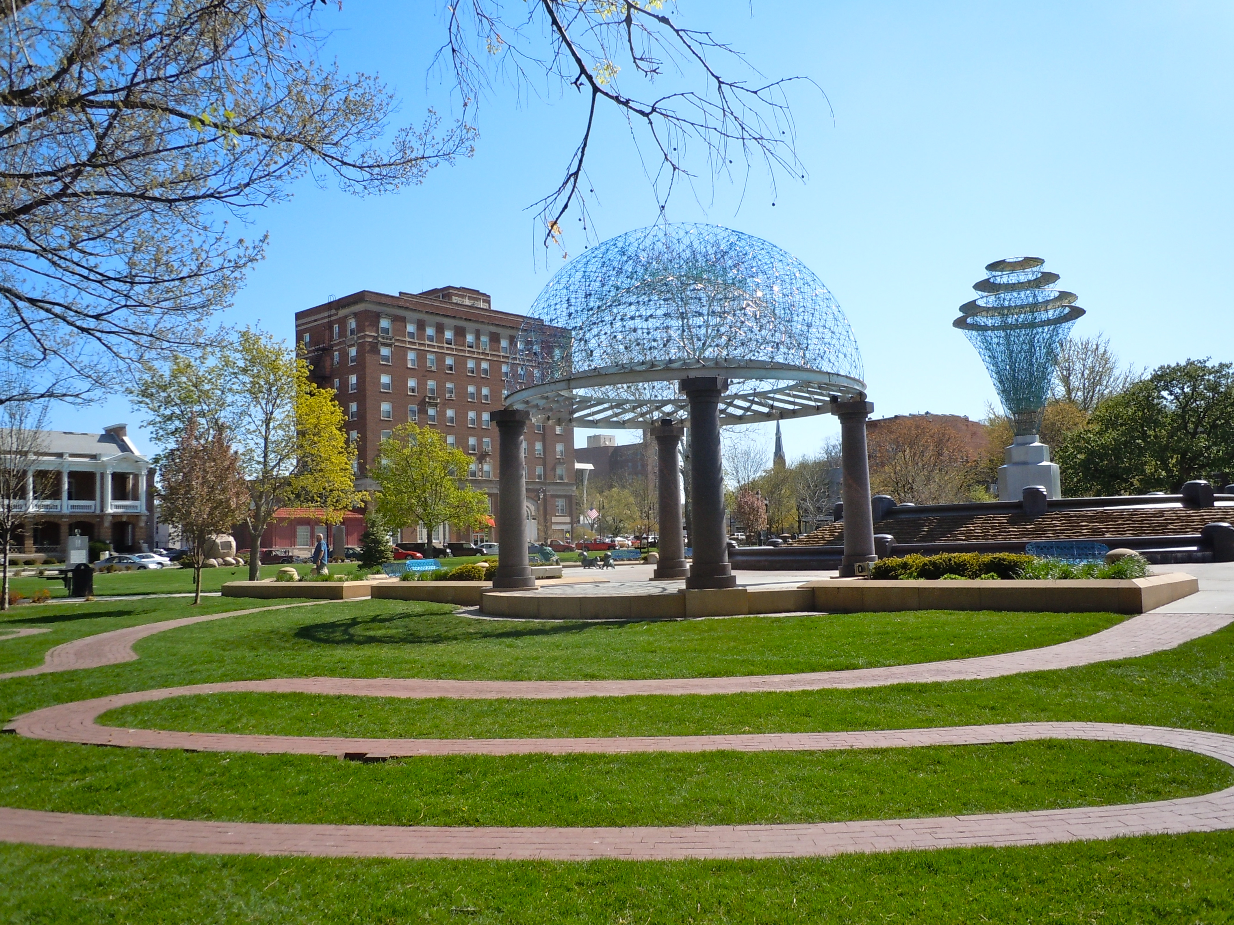 Bayliss Park in downtown Council Bluffs, Iowa. Coordinate approx 41.2592,-95.8517